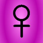 Astrological simbol of venus. Own work